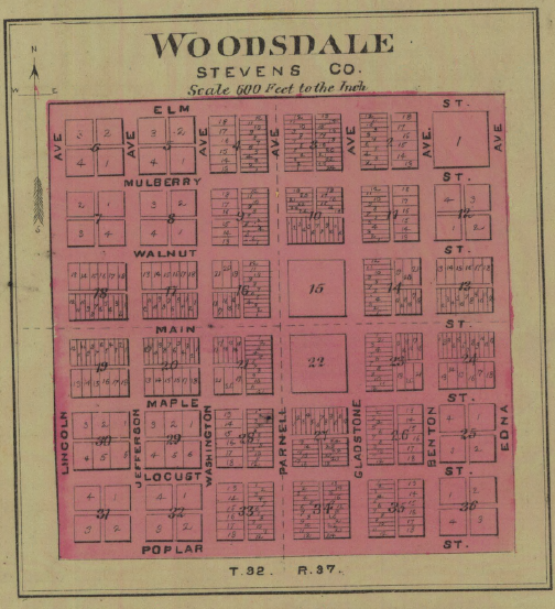 Plat of Woodsdale, Kansas, from the Official State Map of Kansas, published in 1887. It is in the public domain.